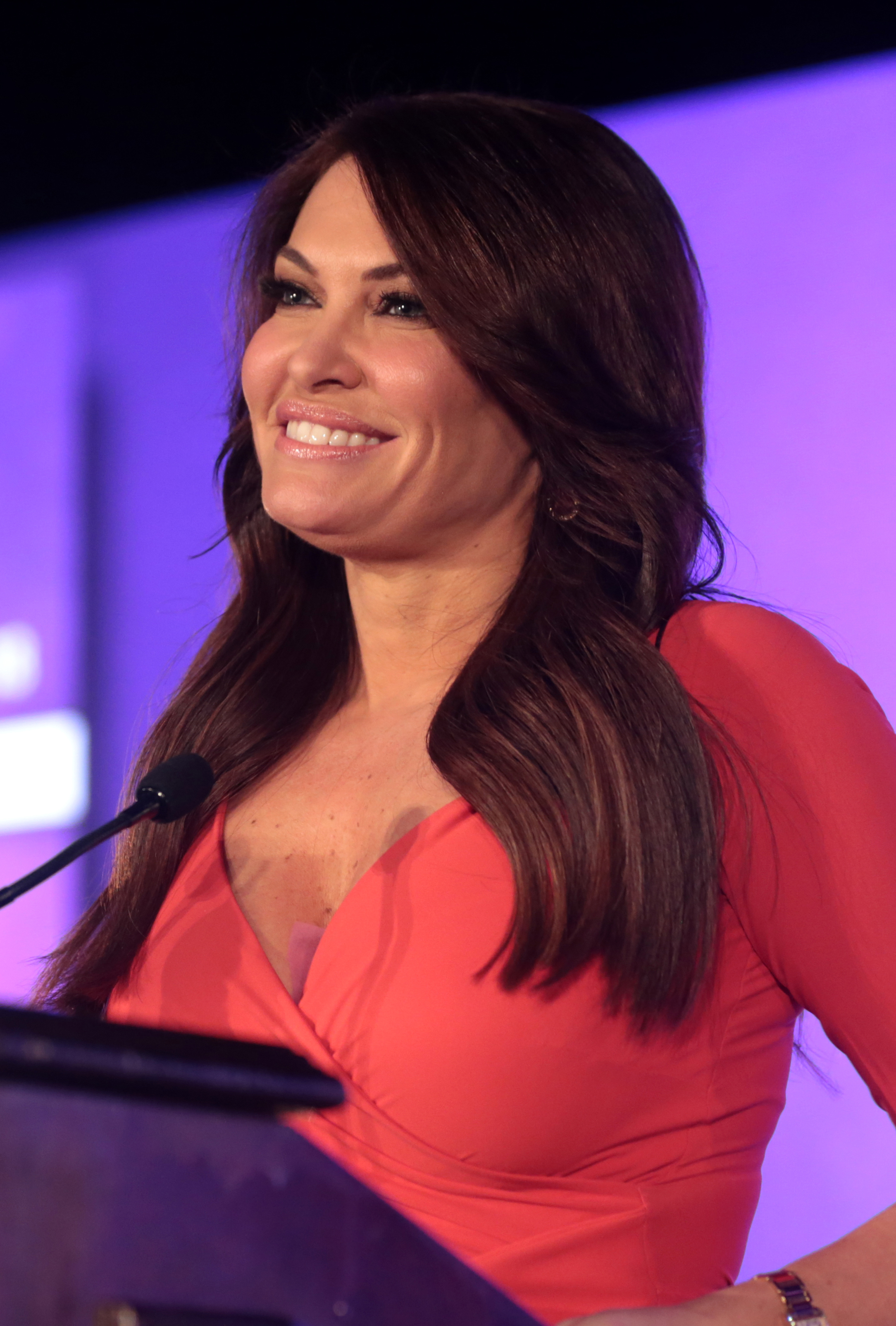 Kimberly Guilfoyle speaking at an event in Dallas, Texas.